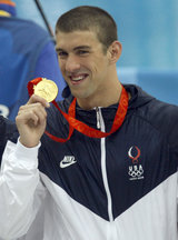 U.S. swimmer Michael Phelps shows off his Olympic gold medal as he stands on the victory podium at the National Aquatics Center in Beijing.